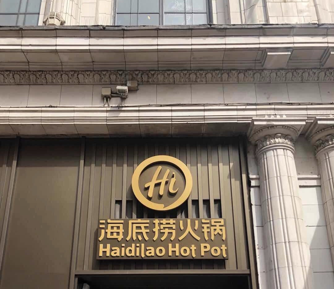 A picture of Hai Di Lao Hot Pot in London city